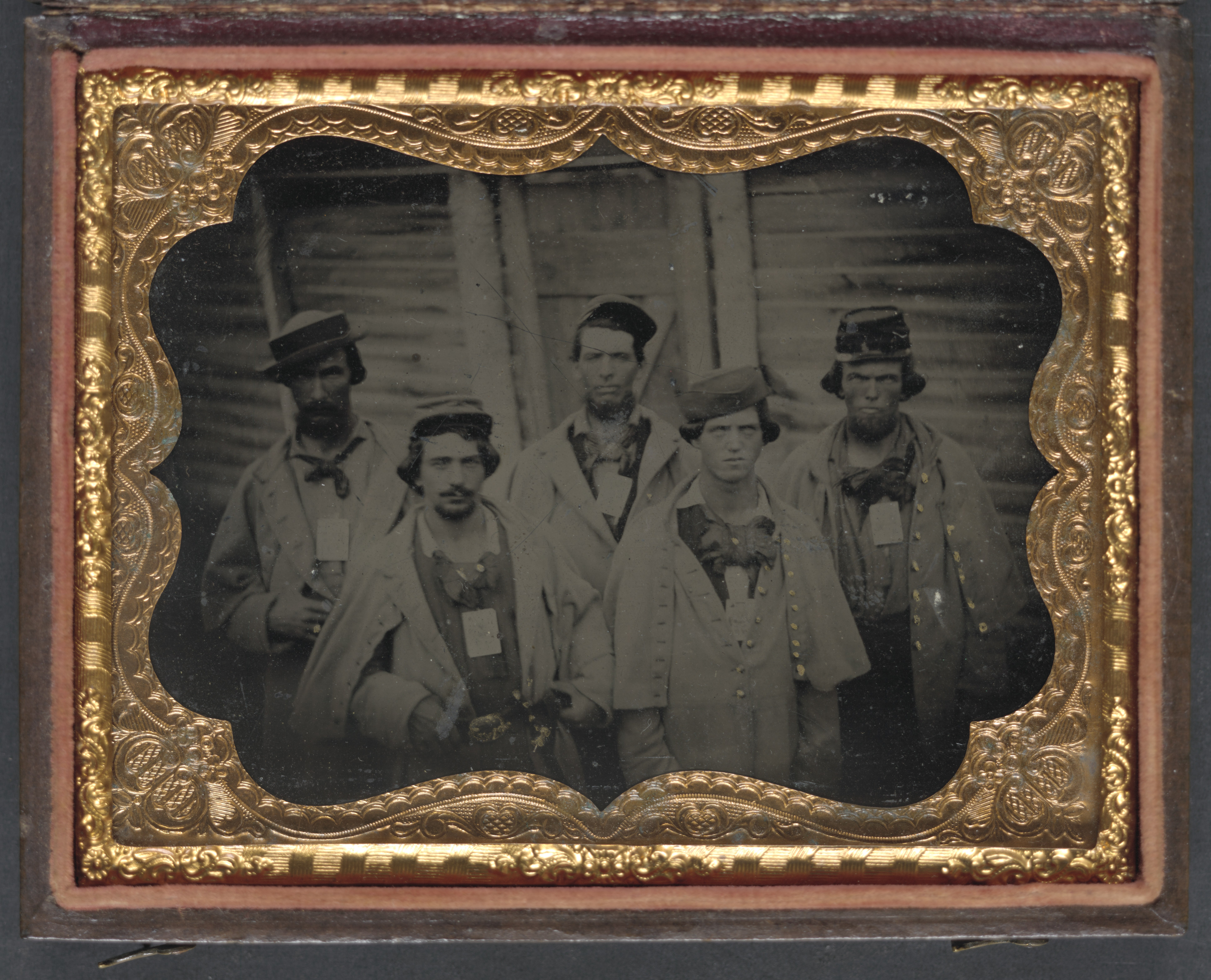 Title: Five unidentified prisoners of war in Confederate uniforms in front of their barracks at Camp Douglas Prison, Chicago, Illinois Abstract/medium: 1 photograph : quarter-plate tintype, hand-colored ; 11.9 x 9.4 cm (case)